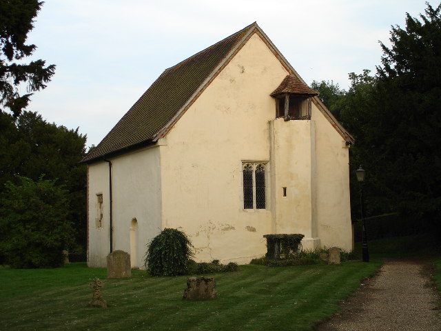 St Margaret of Antioch Church, Bygrave. South end of the church with unusual tower. Pretty churchyard.